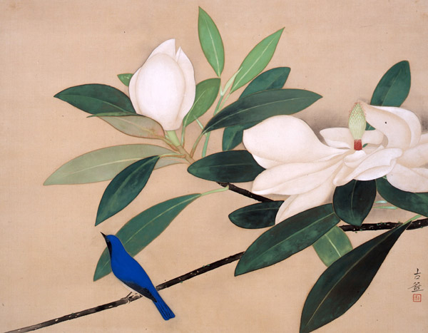 "White flowers and small bird". Colour on silk, hanging scroll. Yamatane Museum of Art.